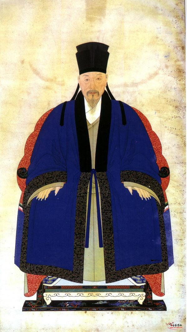 Portrait from China Ming Dynasty